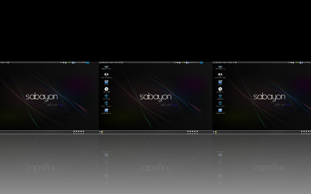 Screencapture of Sabayon Linux 5.0, GNOME. Environment designed by Fabio Erculiani and other developers of Sabayon Linux.